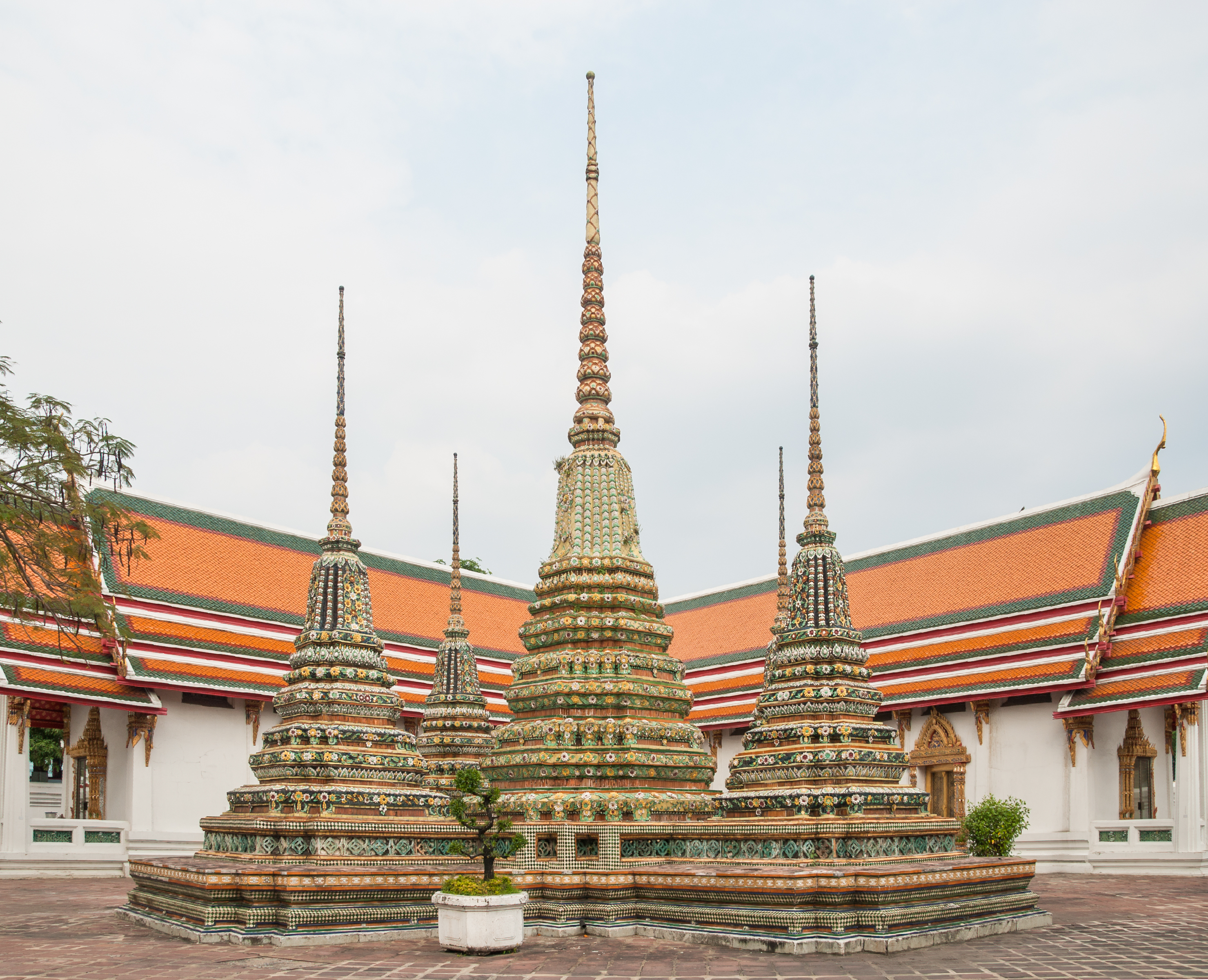 Bangkok old town, Wat Po